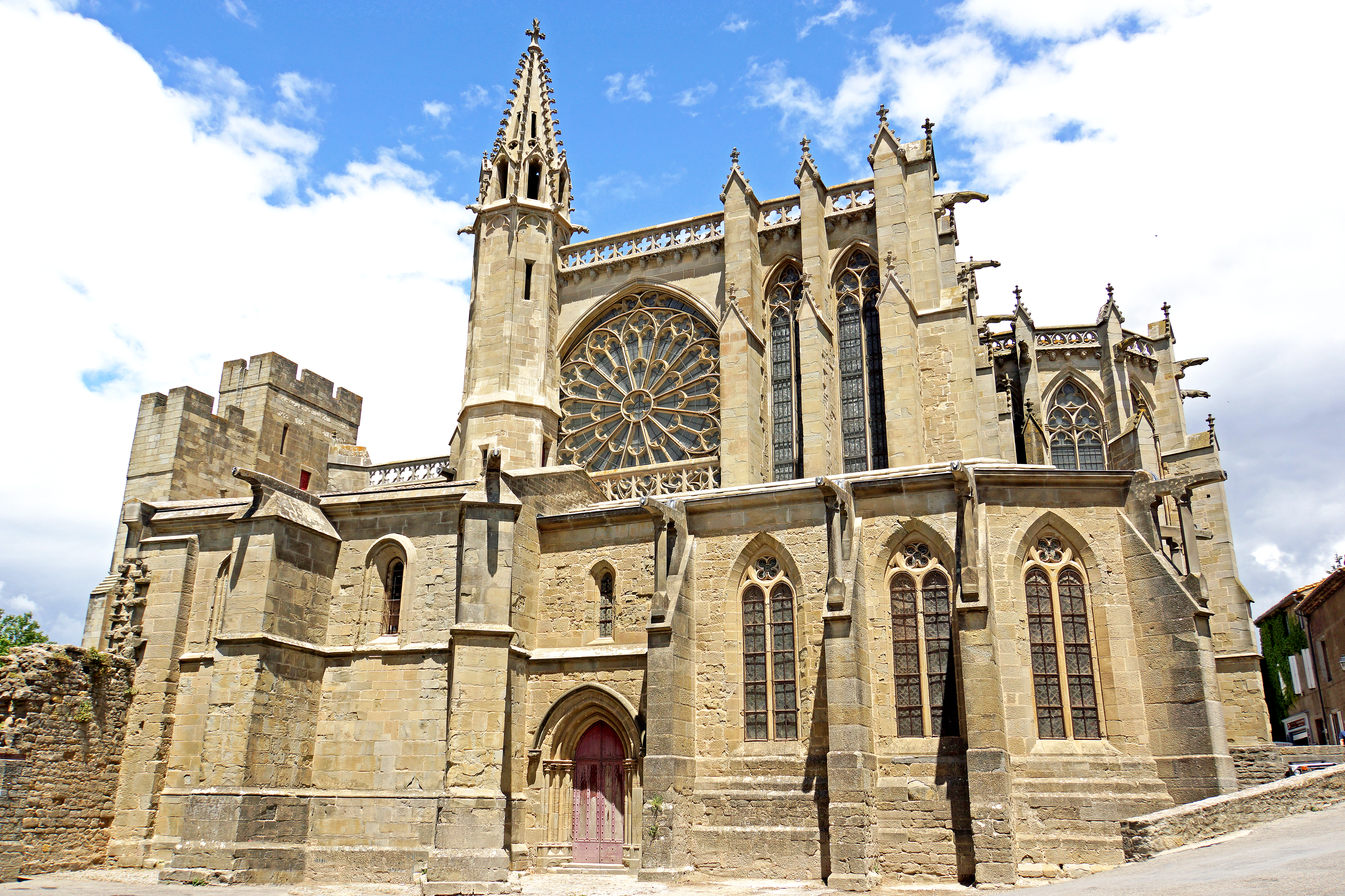 PLEASE, NO invitations or self promotions, THEY WILL BE DELETED. My photos are FREE to use, just give me credit and it would be nice if you let me know, thanks. Basilica of Saint-Nazaire (11th - 14th century), the jewel of this medieval city, Carcassonne.